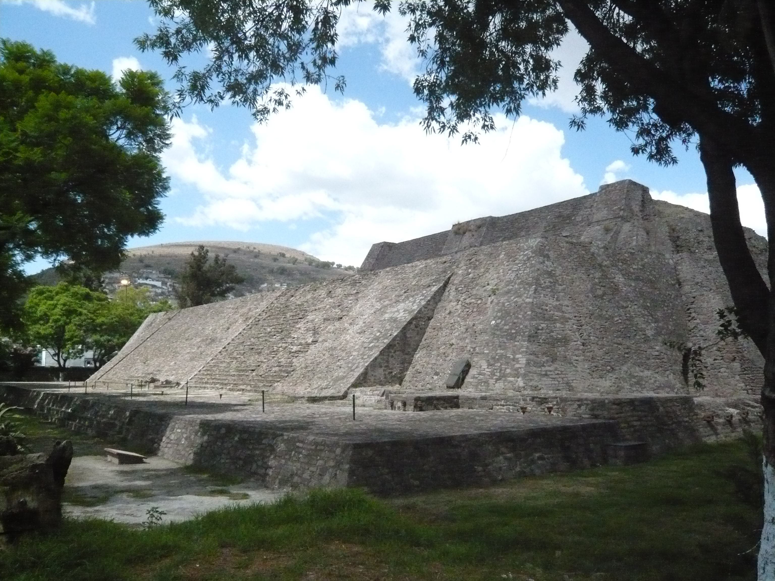 The early Aztec pyramid at Tenayuca, Mexico State.